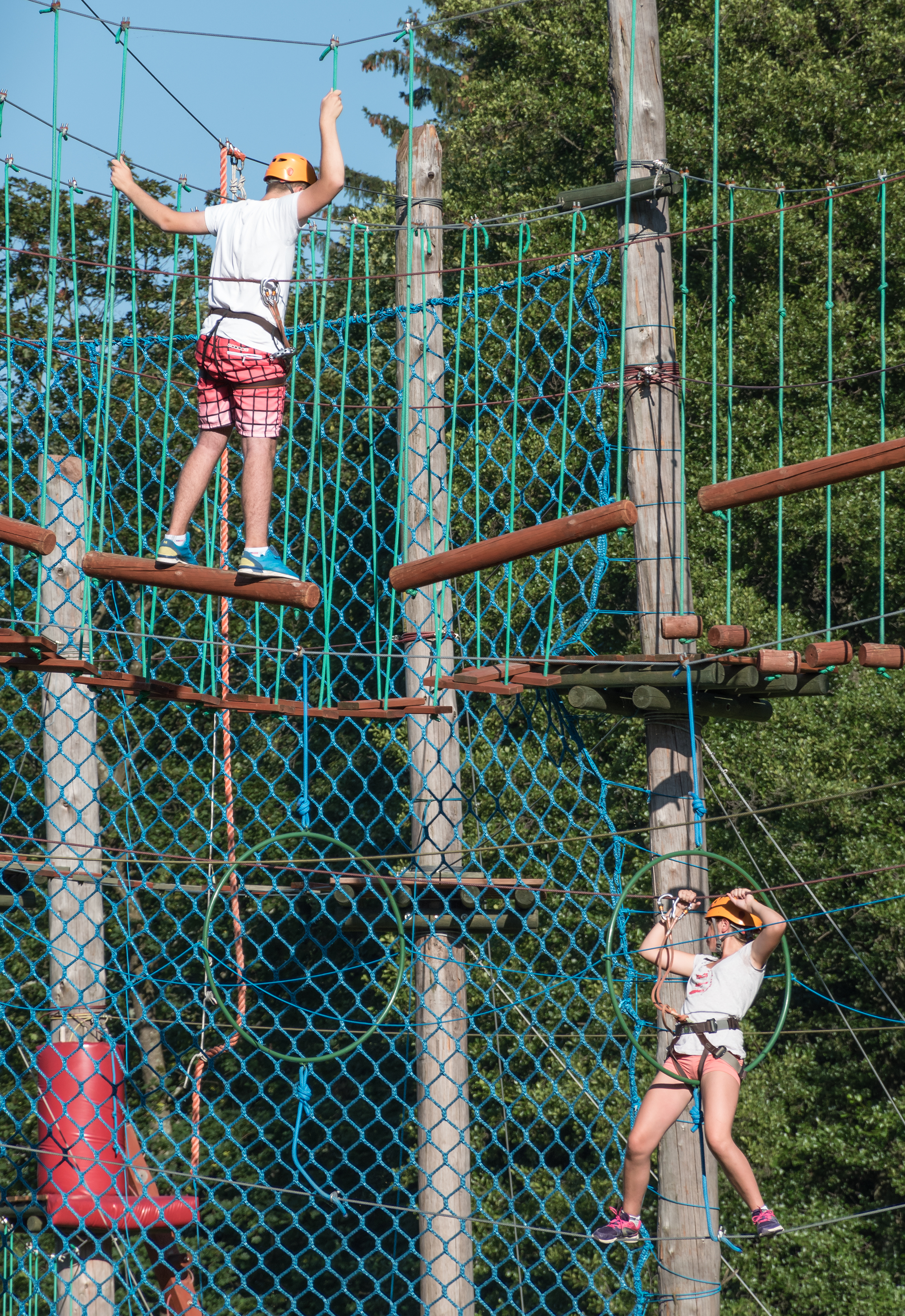 Ropes course in Kletno